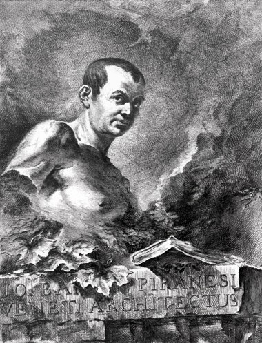 This etching by Piranesi’s close friend Felice Polanzani shows the artist, aged thirty, as a Janus figure—half antique fragment and half modern architect—in his chosen role as the interpreter of the classical past for modern designers.